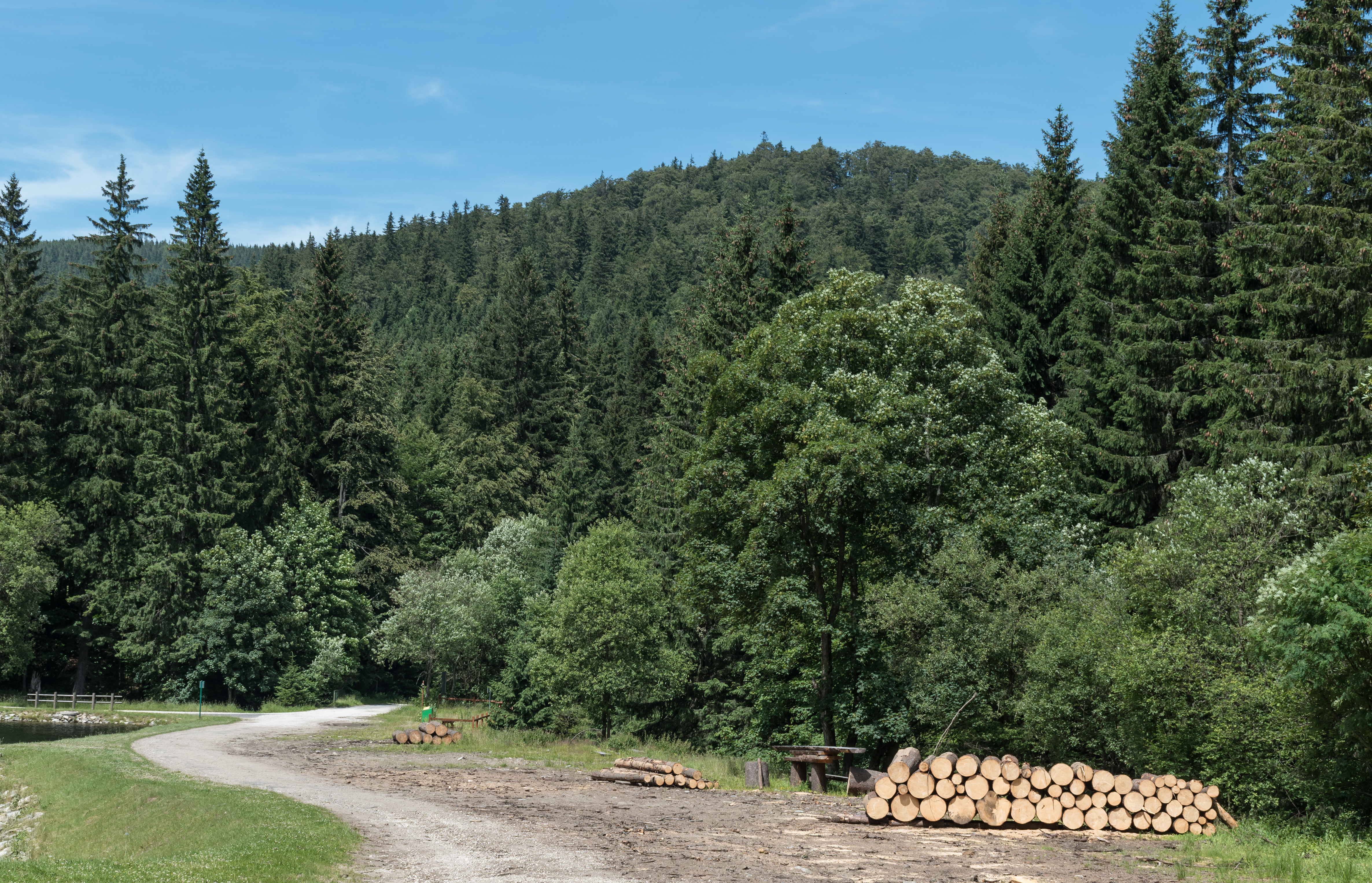 Szeroka Kopa, Bialskie Moutains, Sudetes. Exposure from Nowa Biela